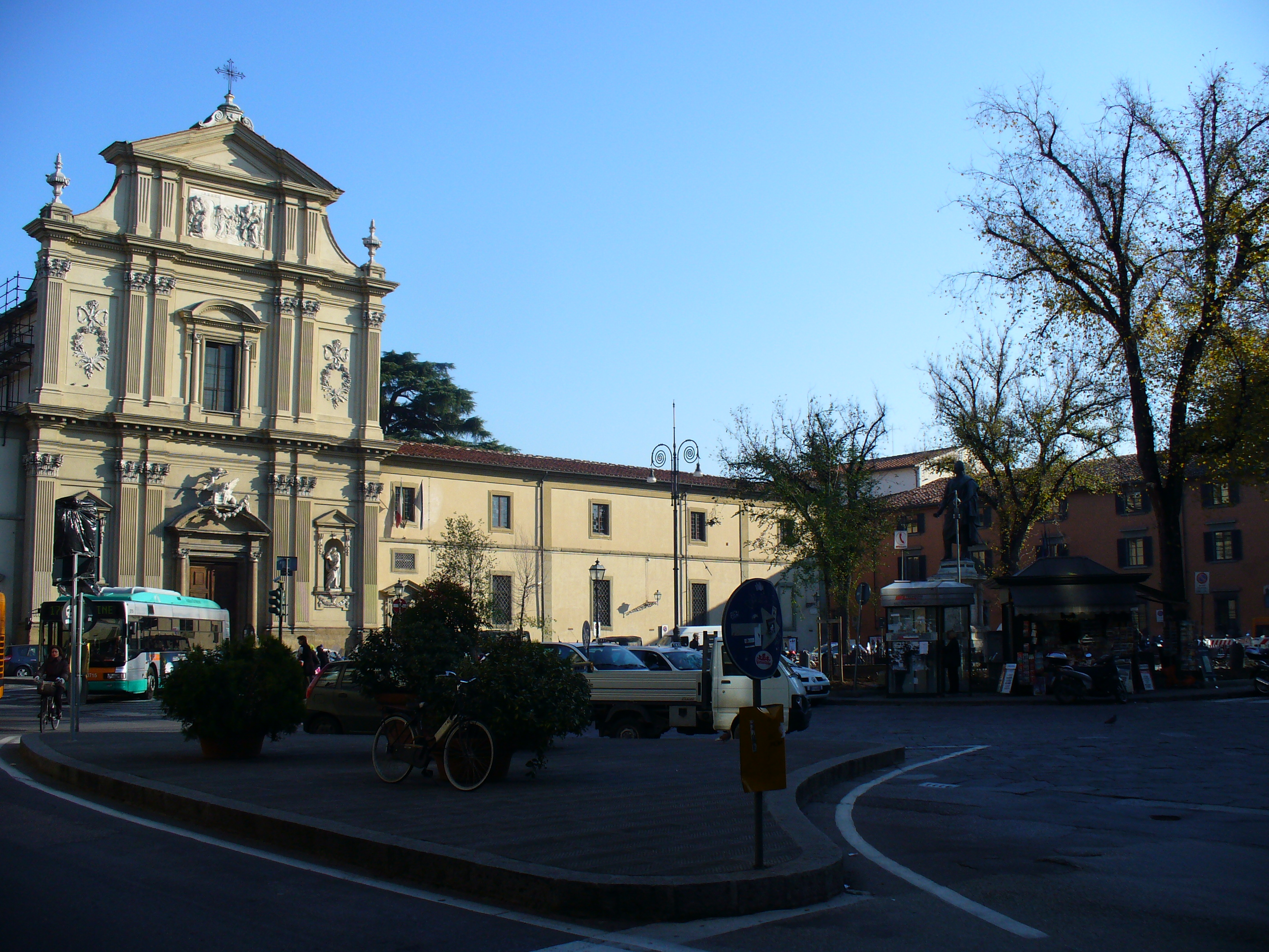 Piazza San Marco (Florence)